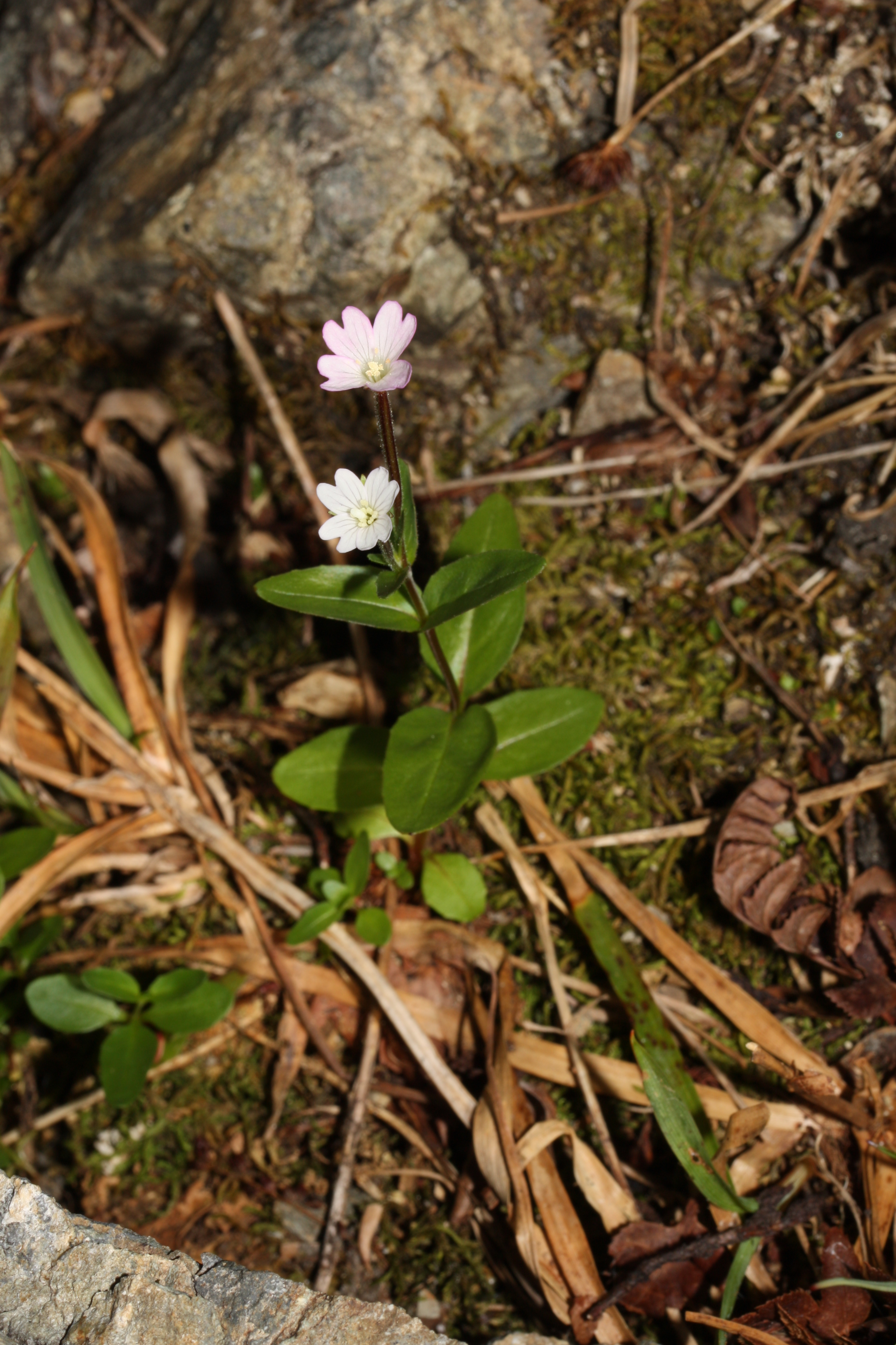 Talus Willowherb